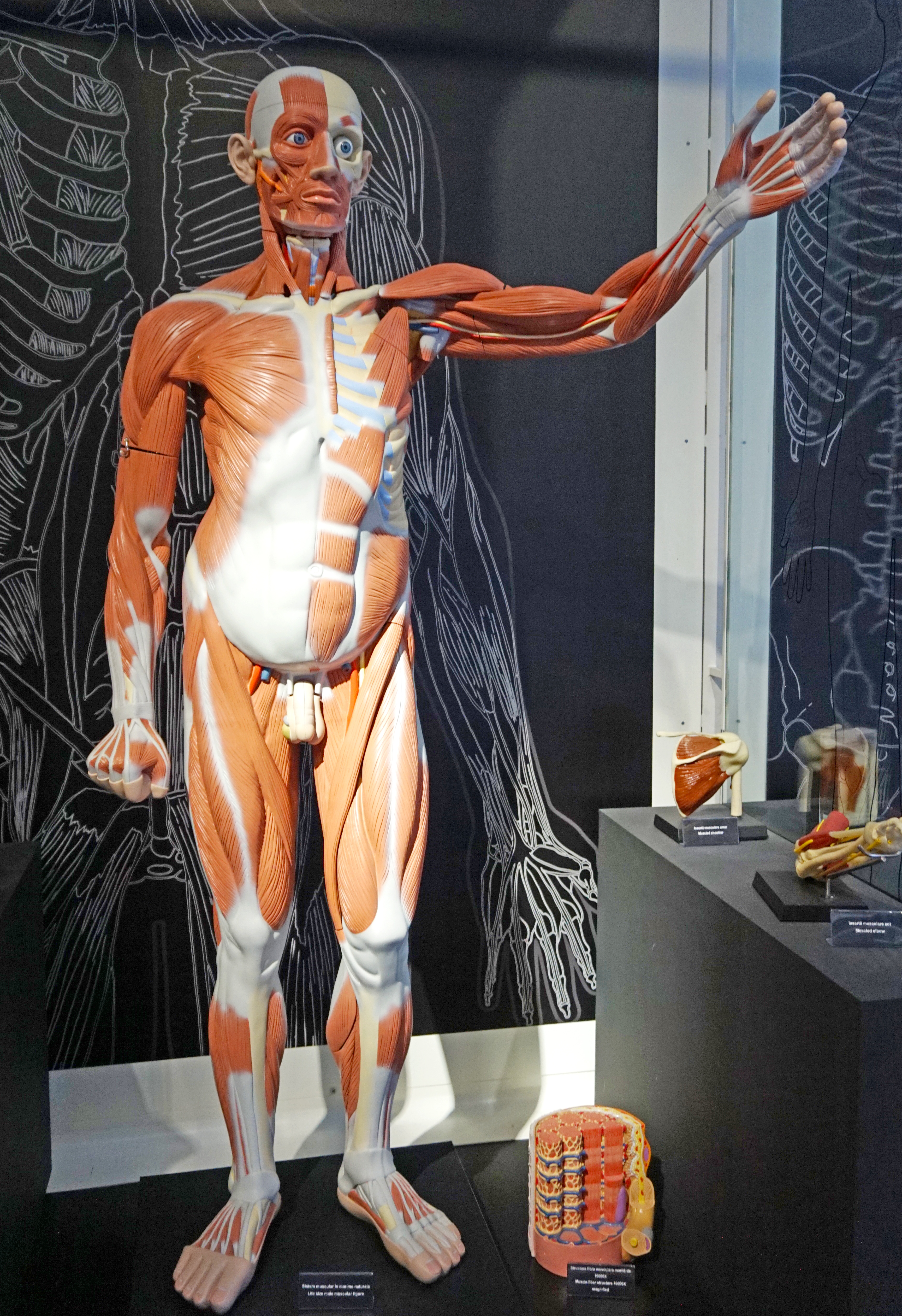 Model of human muscles at the Grigore Antipa Natural History Museum. Bucharest, Romania. This photograph was taken with a Sony Alpha a5000.